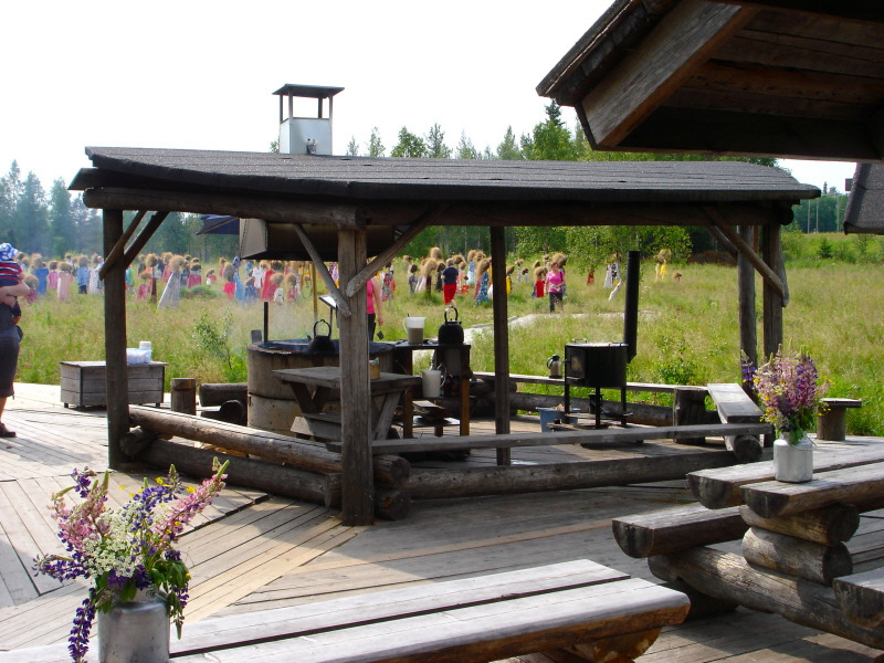 Kiosk